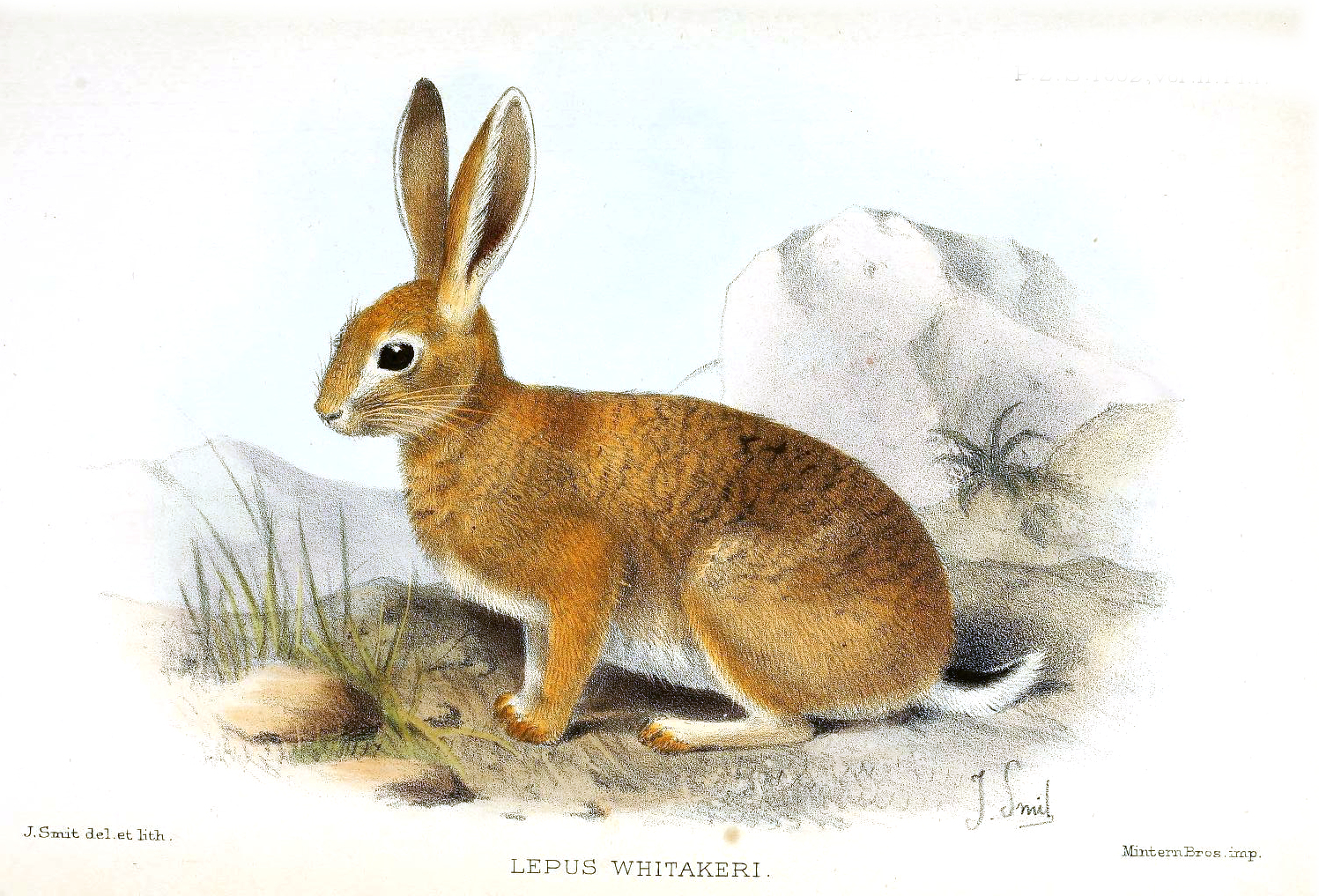 Lepus capensis whitakeri